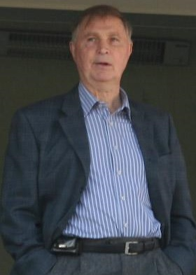 Viktor Tikhonov at football